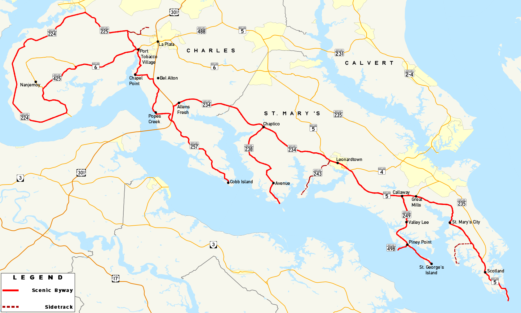 Map for MD Scenic Byway #16, Religious Freedom Tour